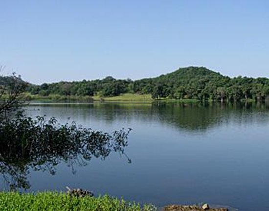 Yashwant Lake View